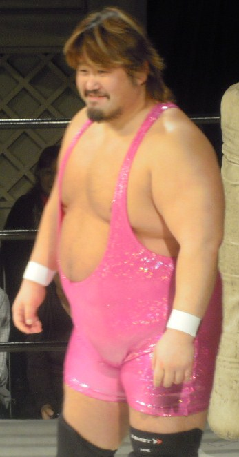 Japanese professional wrestler,Yutaka Yoshie. Oct 9 2011 Tokyo Kinema Club.